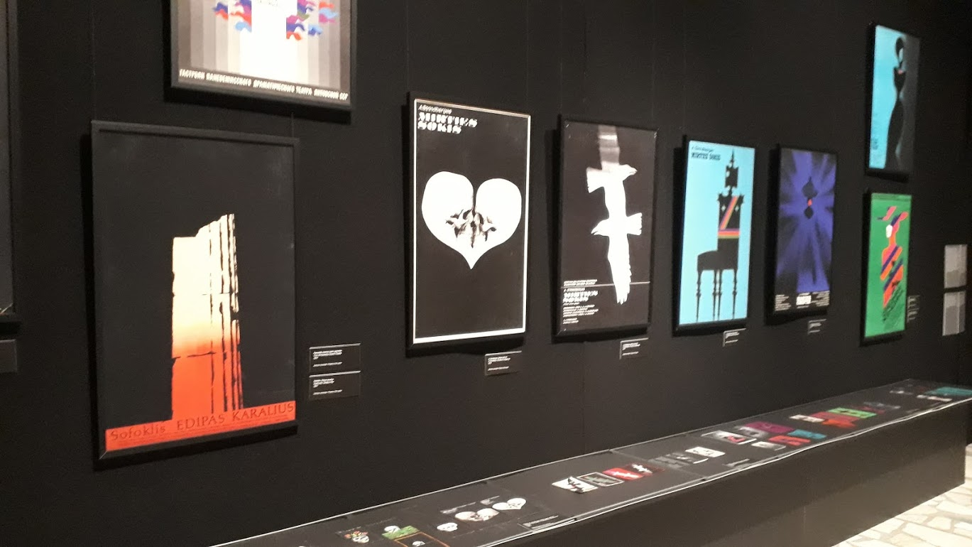 Juozas Galkus exposition 2020 Jan.